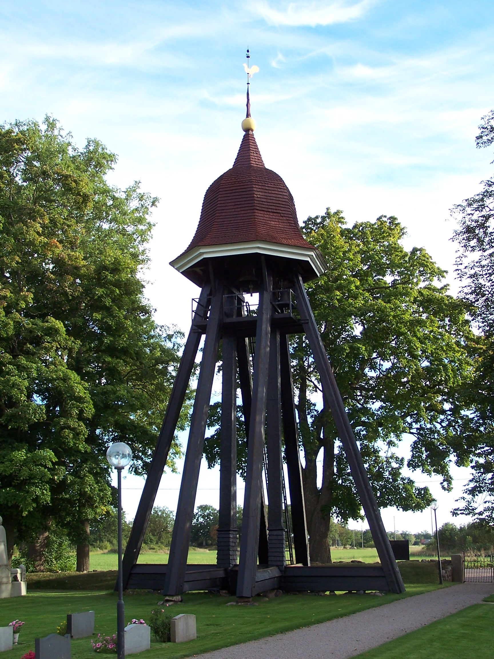 Arby church, Sweden - Bell tower